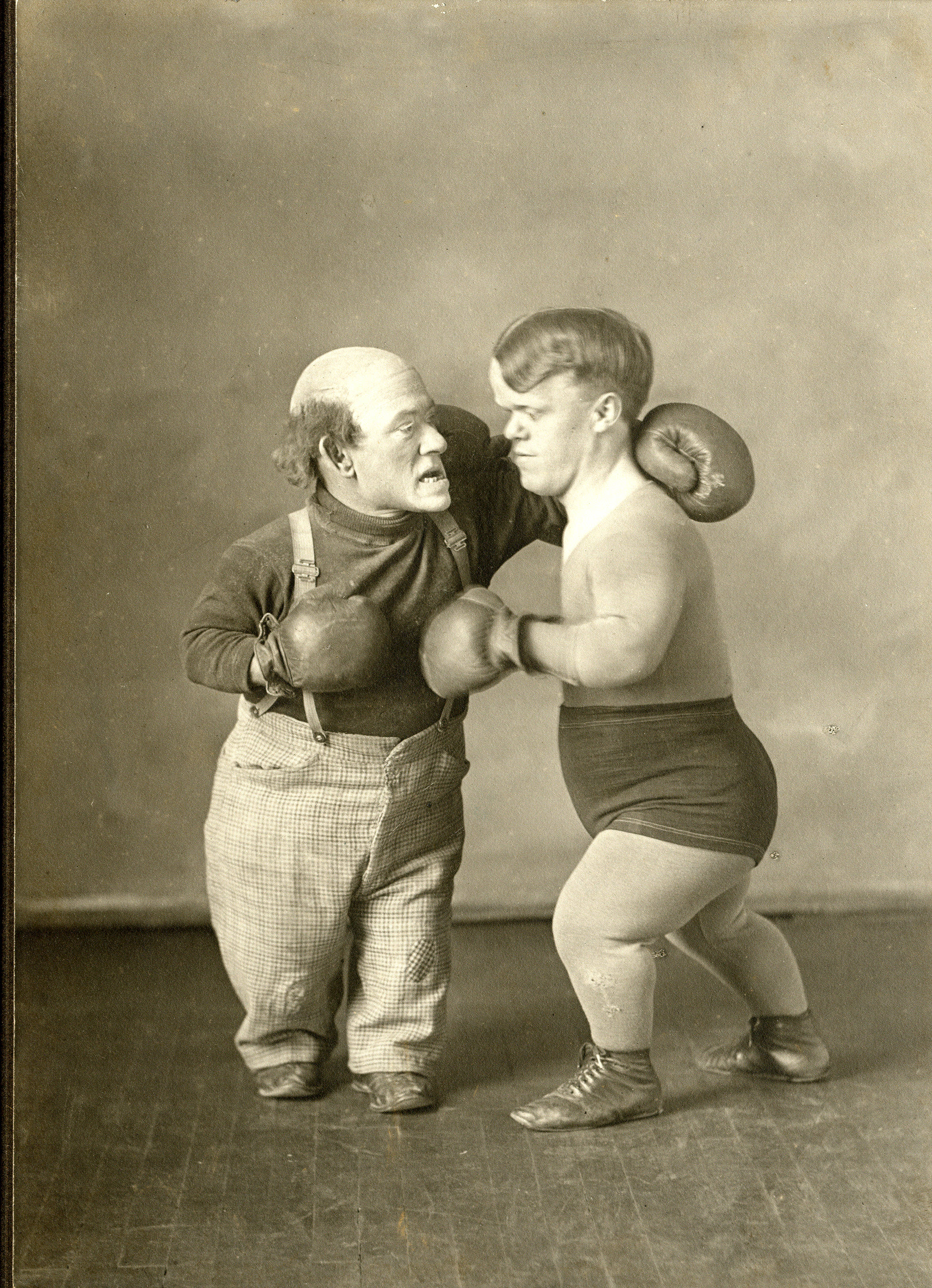 Vaudeville performers Robinson and Grant. Dated Aug. 1907. Subjects: vaudeville